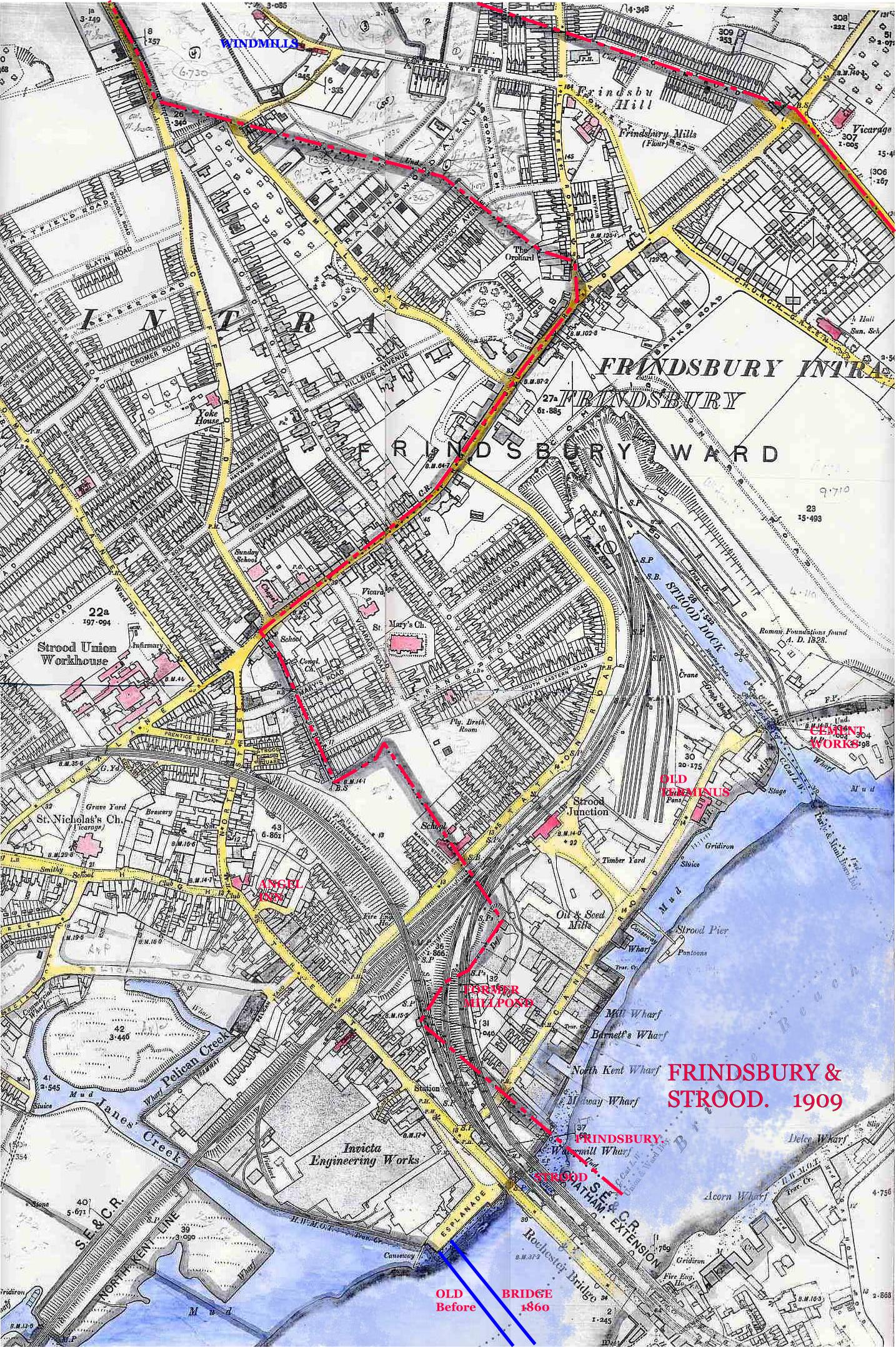 Amalgam of Strood and Frindsbury 1909 OS XIX 2 1st, Hand coloured with line showing division between Frindsbury and Strood